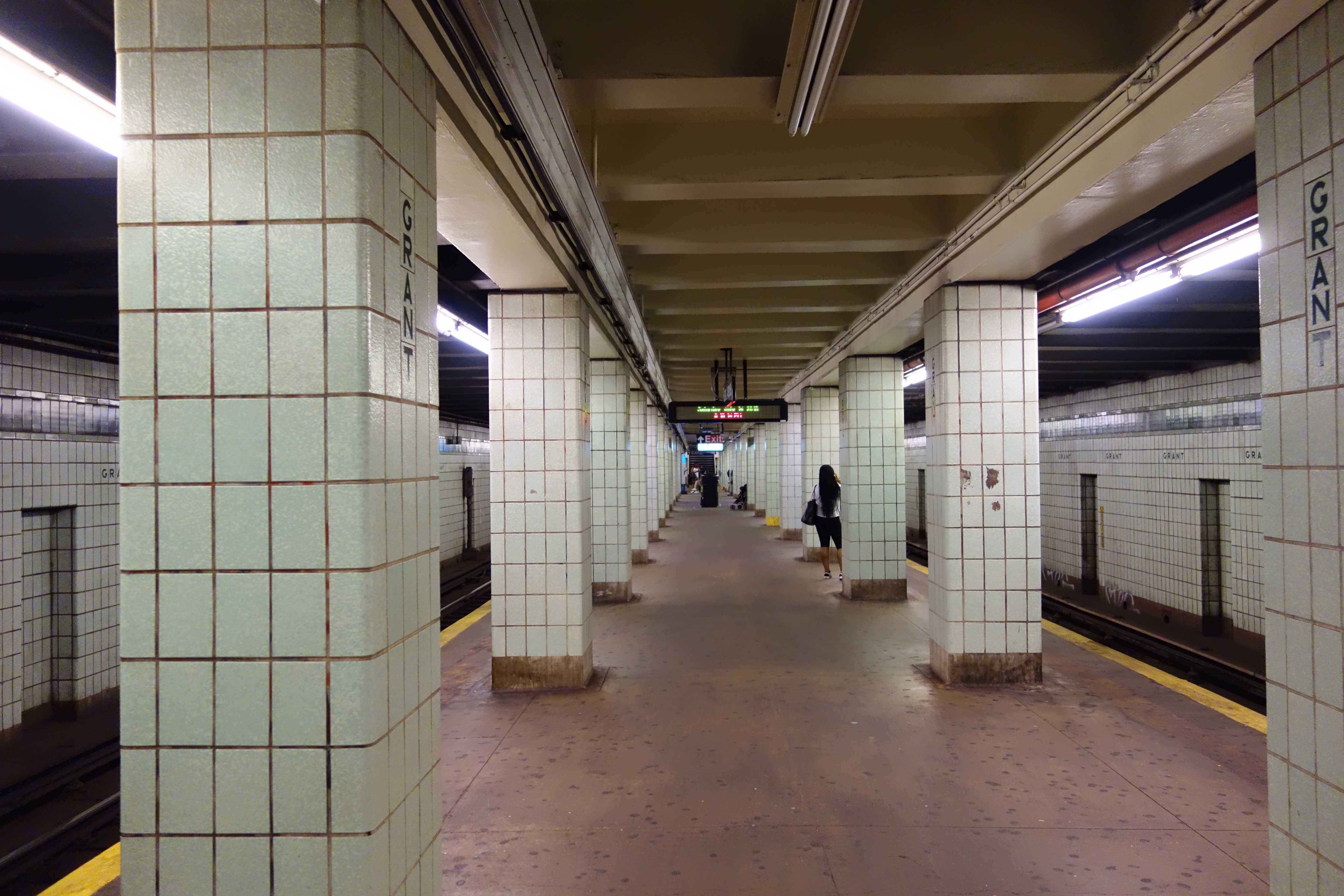 Looking west down the Grant Avenue IND subway station in City Line, East New York, Brooklyn.